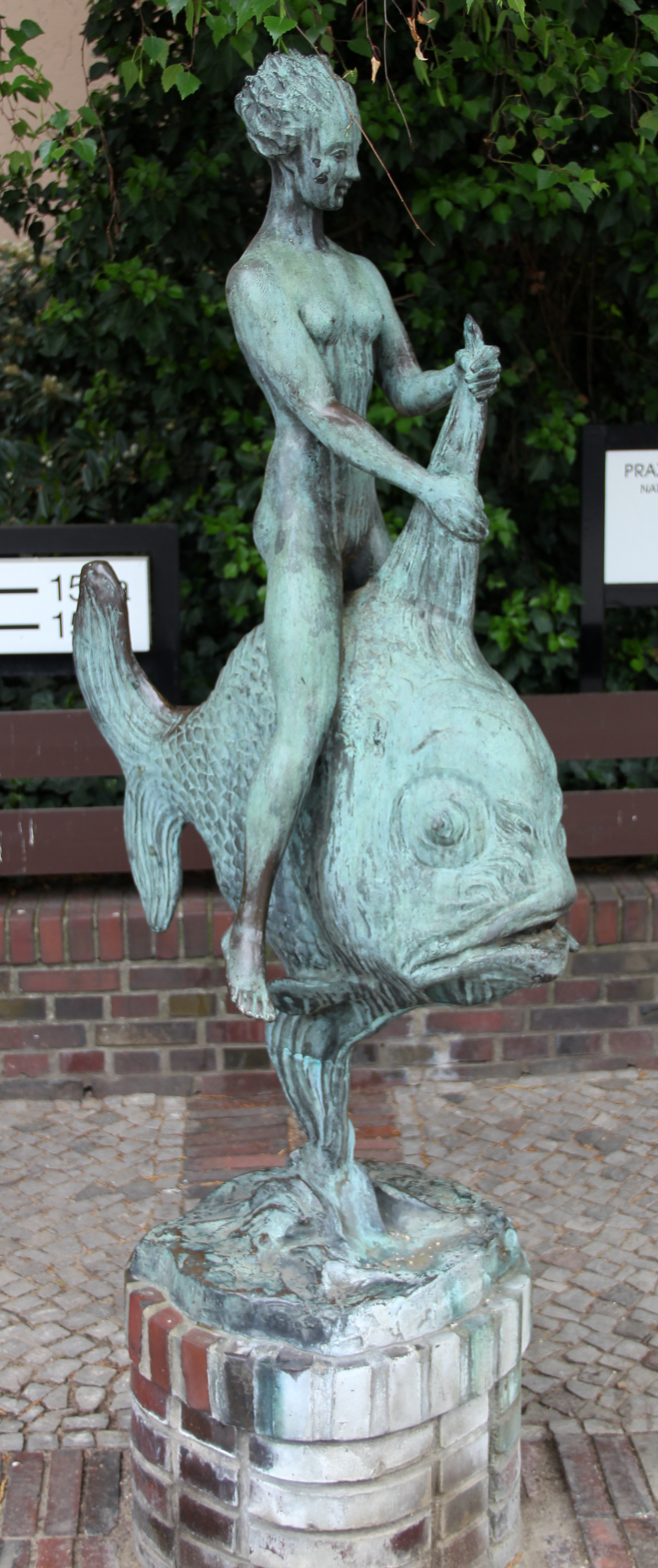 Sculpture, "Fischreiterin" by Georges Morin, 1929, Uhlandstraße 150A, Berlin-Wilmersdorf, Germany